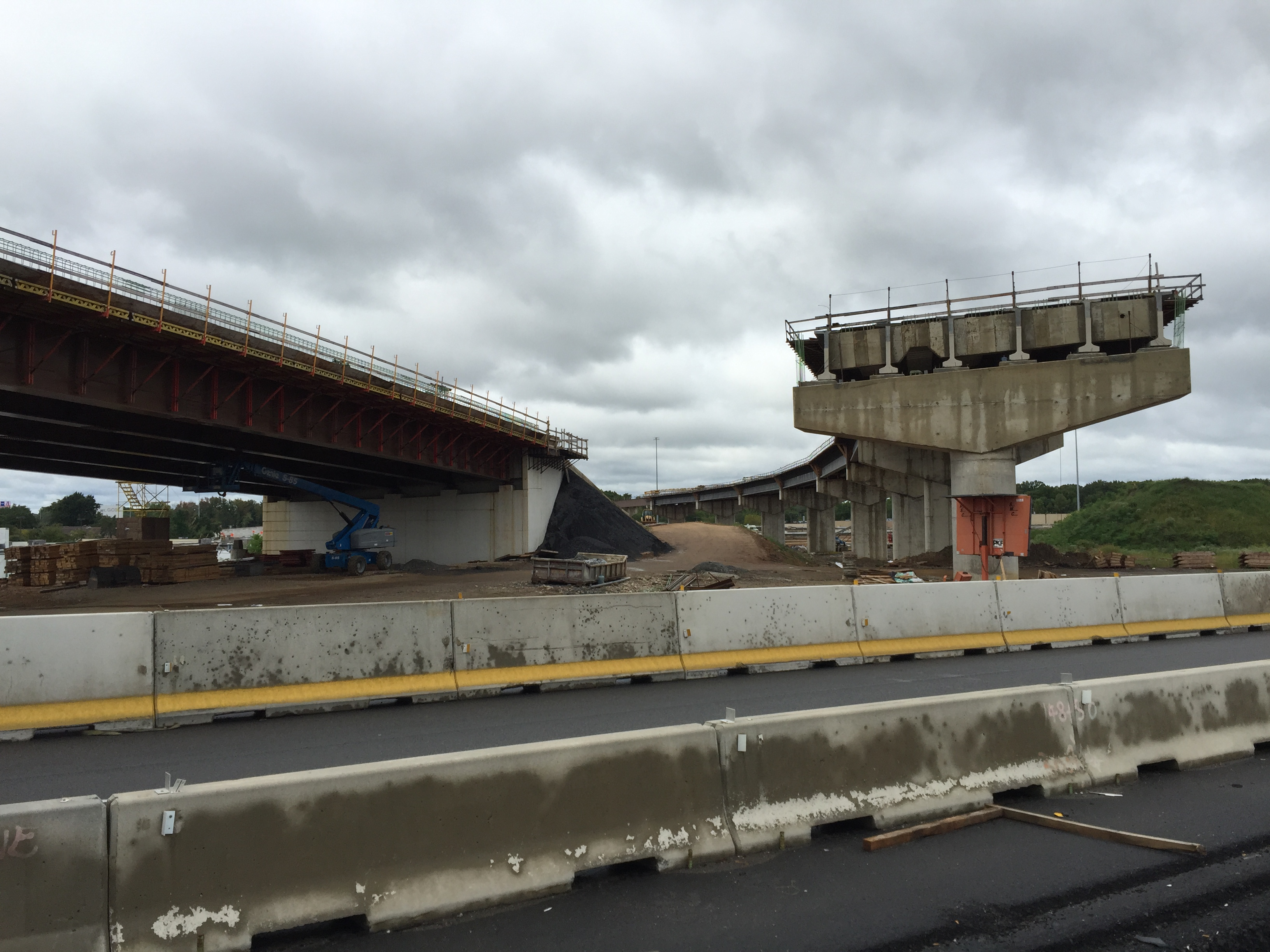 View south along the ramps which will carry Interstate 95 between the Delaware Expressway and the Pennsylvania Turnpike during construction of the Interstate 95/Pennsylvania Turnpike Interchange near Durham Road in Bristol Township, Bucks County, Pennsylvania